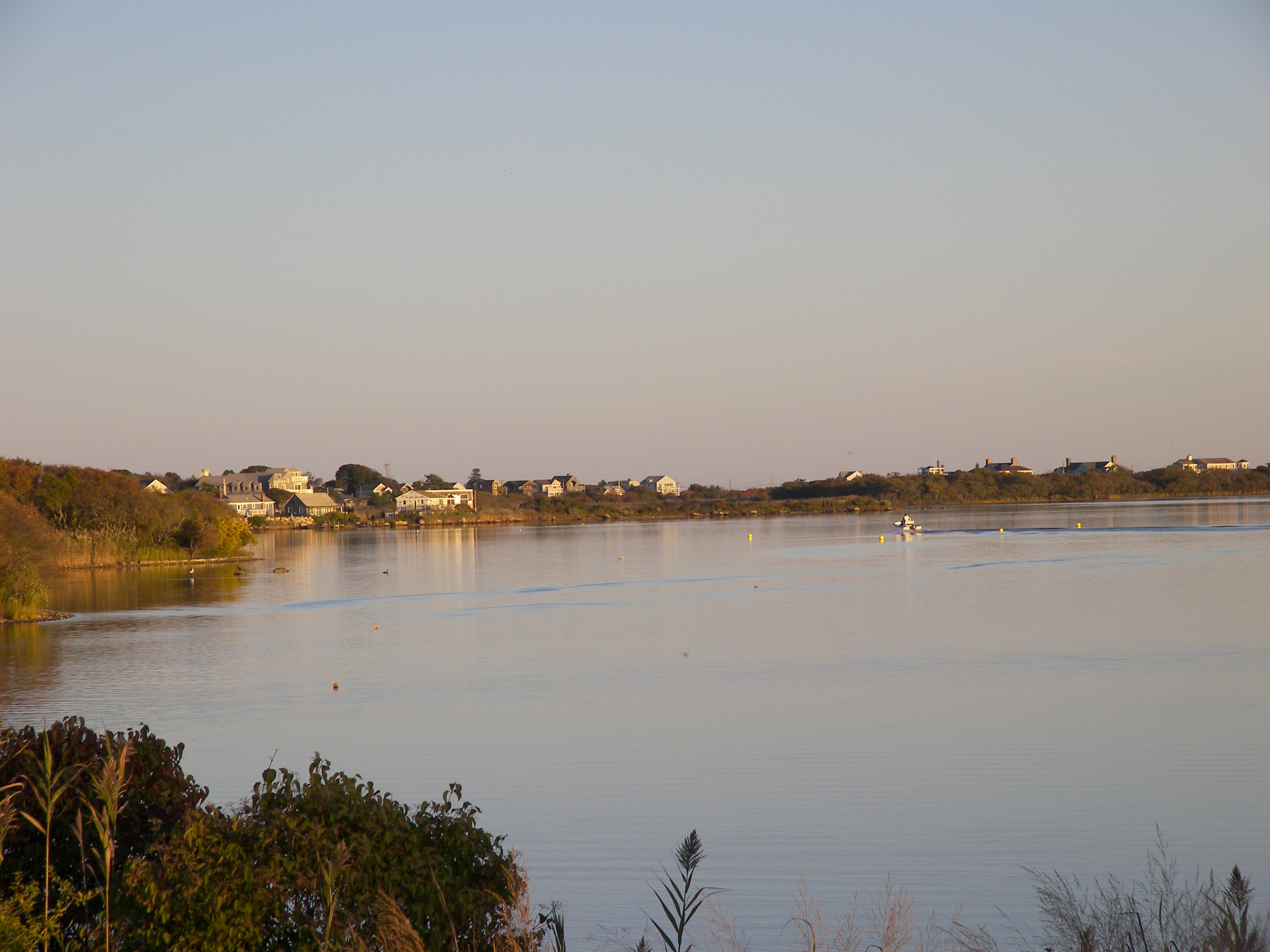 A salt pond in Charlestown, RI.